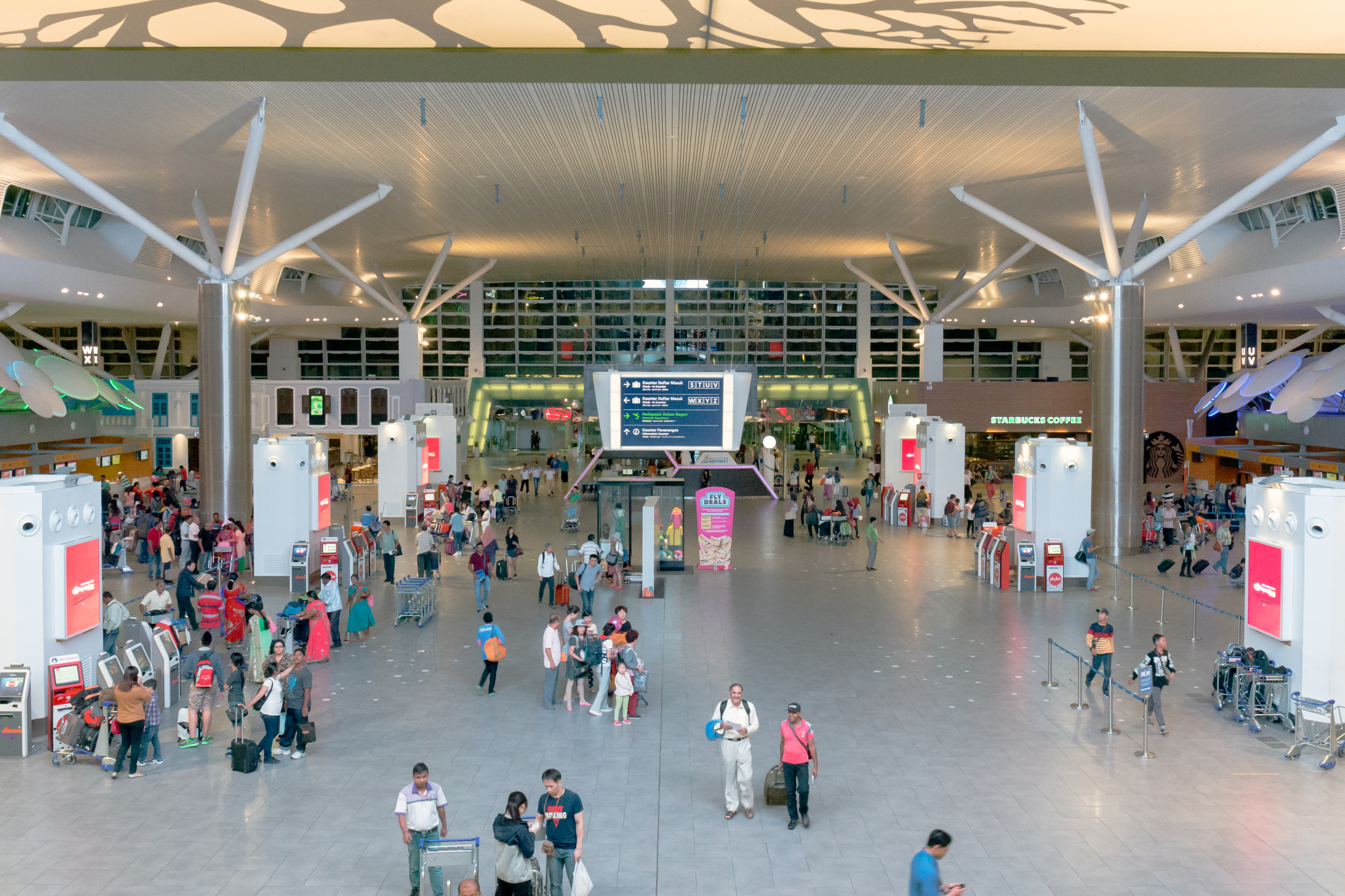 Kuala Lumpur International Airport departure hall